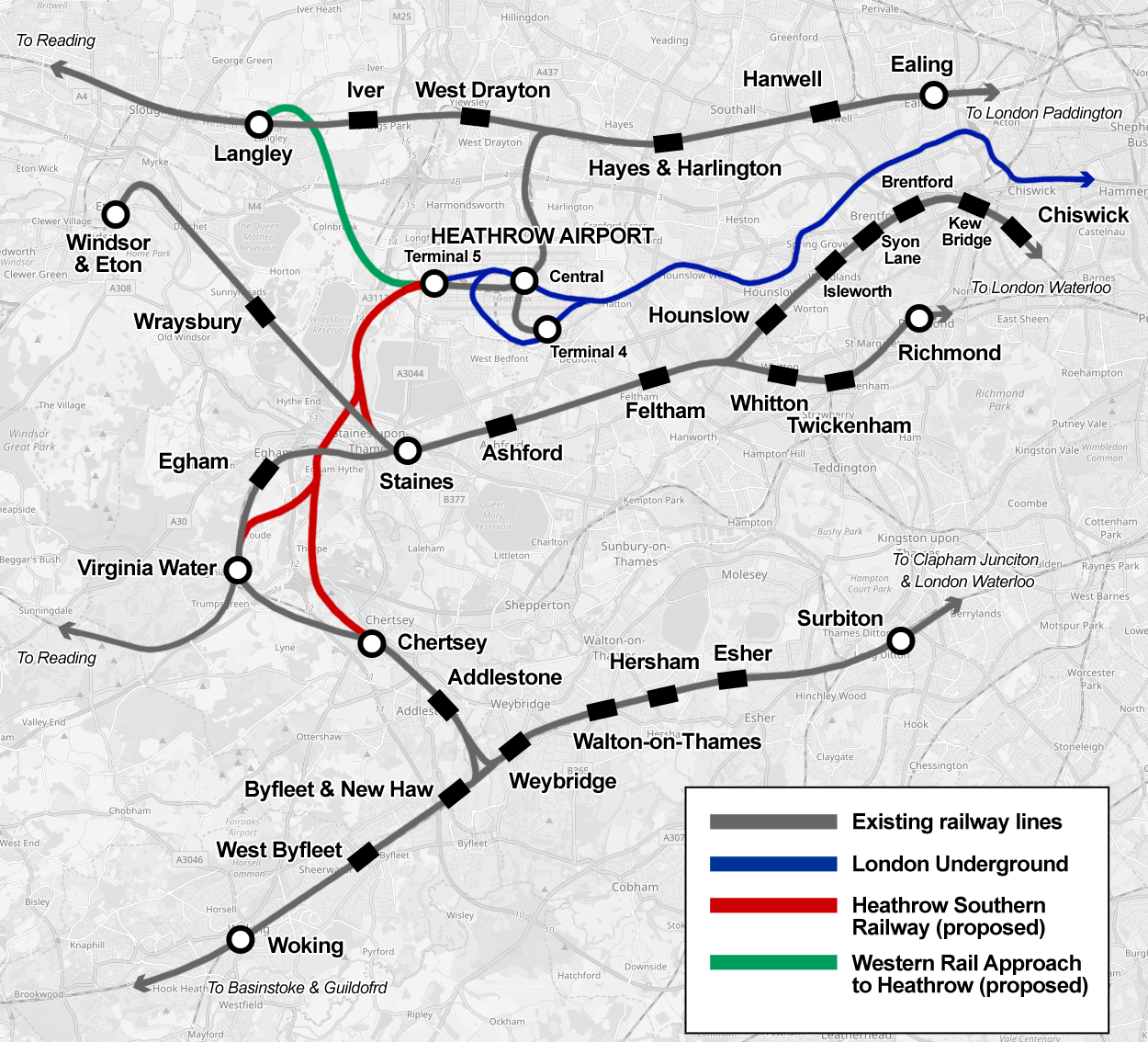 Map of the proposed route of the Heathrow Southern Railway, linking Heathrow Airport to existing railway lines in west London This map may be incomplete, and may contain errors. Don't rely solely on it for navigation.